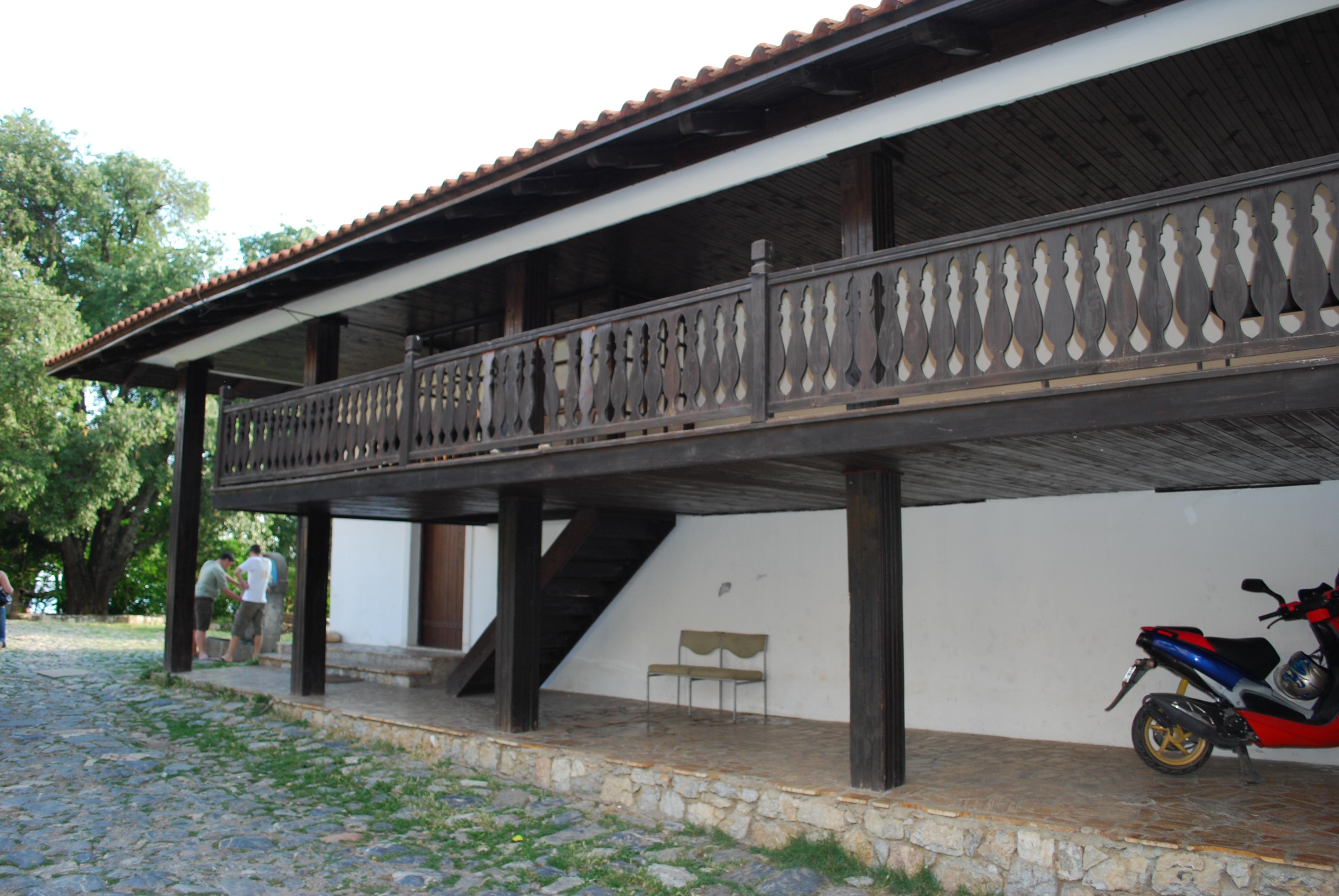 Church of the Holy Mother of God in Ohrid, Macedonia, also known as Peribleptos or Saint Clement church